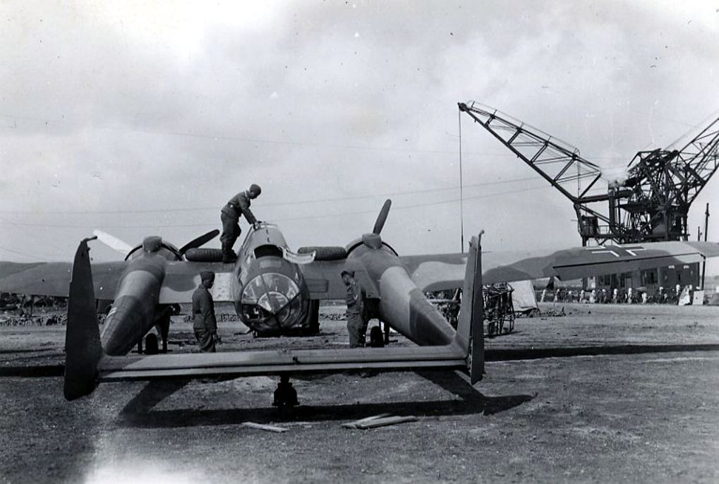 Fokker G-1 Wasp op Waalhaven, 1945